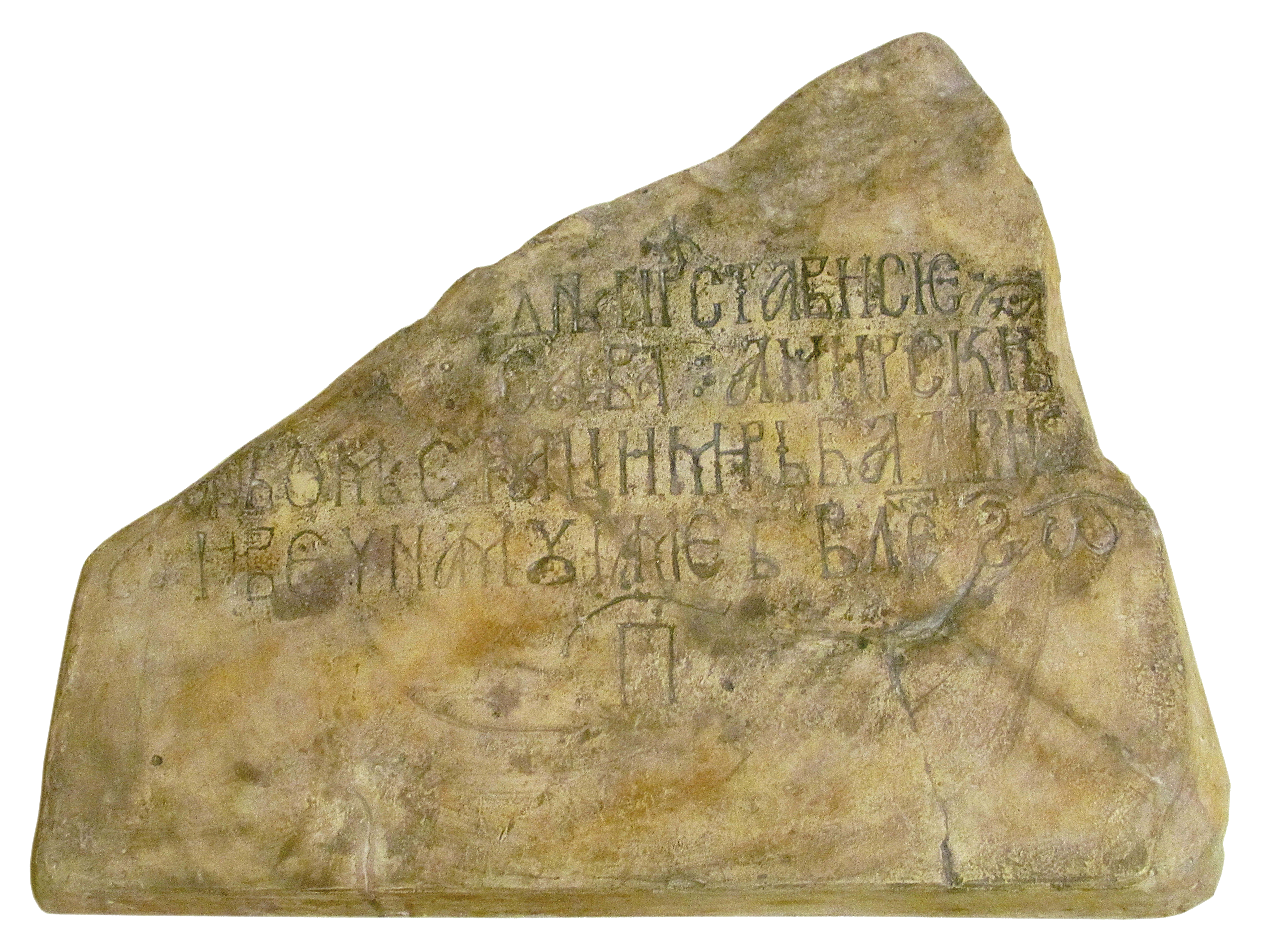 Grave inscription of Stracimir Balsic